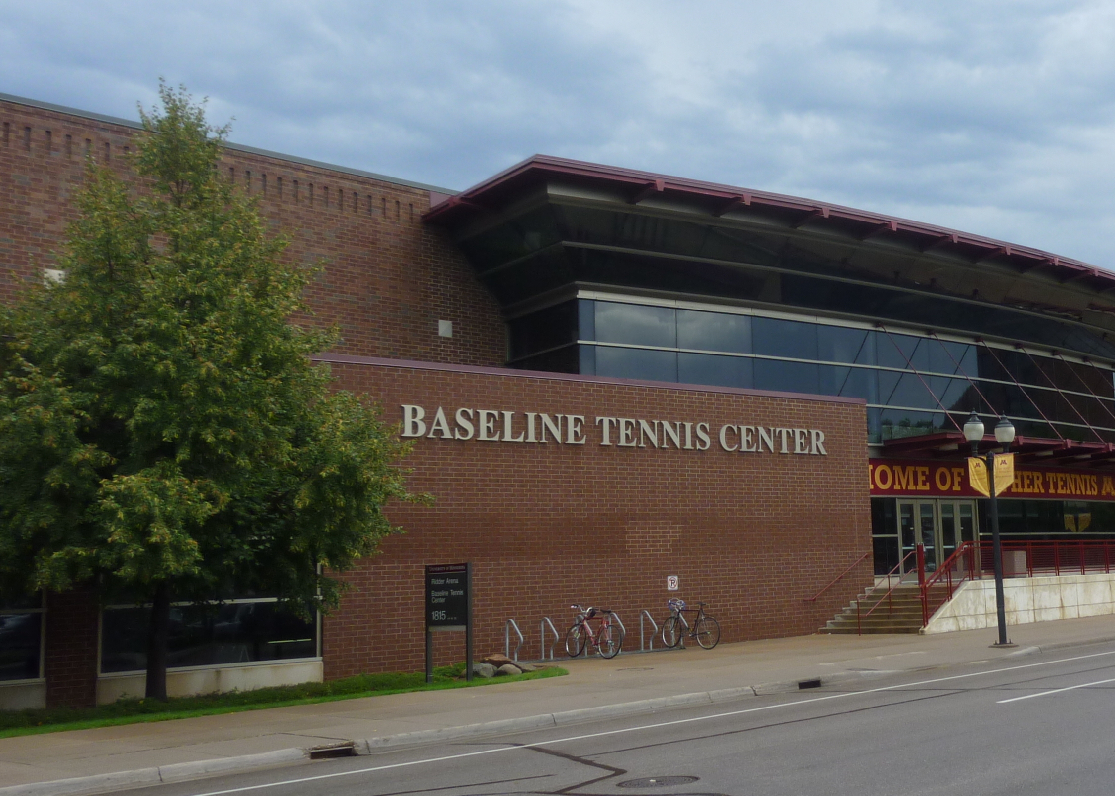 Baseline Tennis Center, University of Minnesota